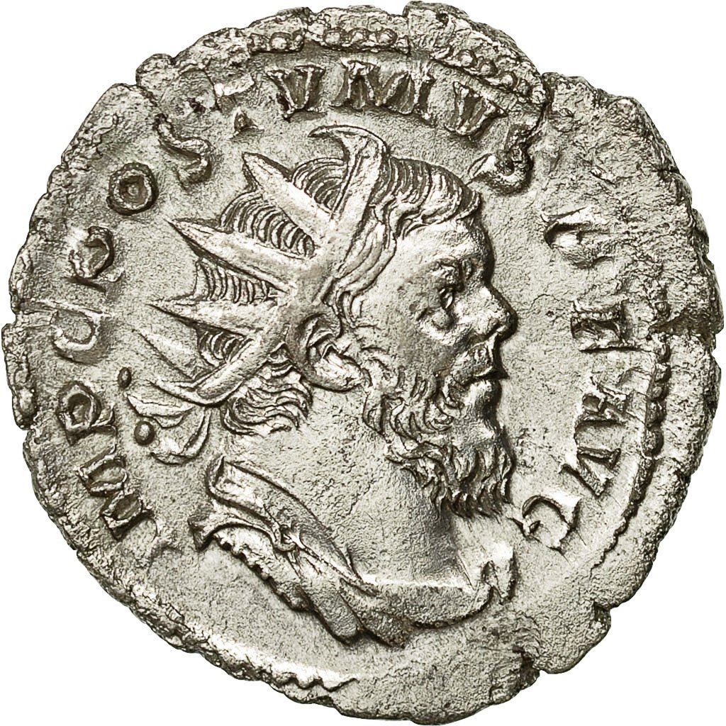 Diameter: 23 mm. Weight: 3.72 g. Reference: RIC 54. Obverse: IMP [C?] POSTVMVS [??] AVG Wearing radiate, draped, and cuirassed bust right. Reverse: Not all readable. Postumus standing left, holding globe and spear. Minted in Trier, AD 260-269.